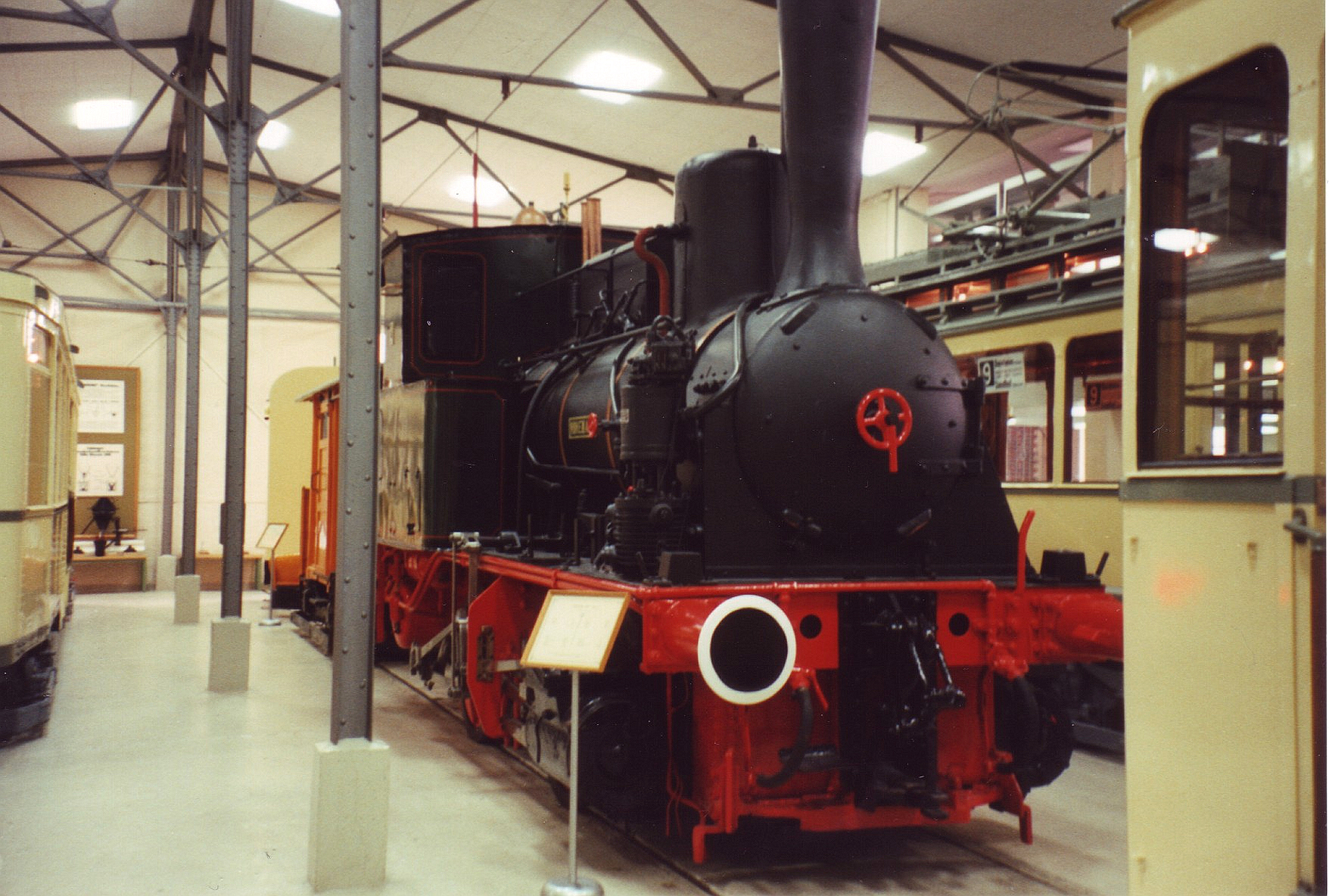 Hagans Bn2t-steam locomotive No. 2 "Hohemark" at the Verkehrsmuseum Frankfurt am Main in Frankfurt]-Schwanheim